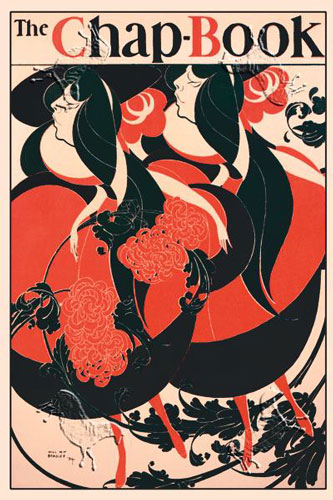 Poster by William Bradley "The Chap-Book" (1894)